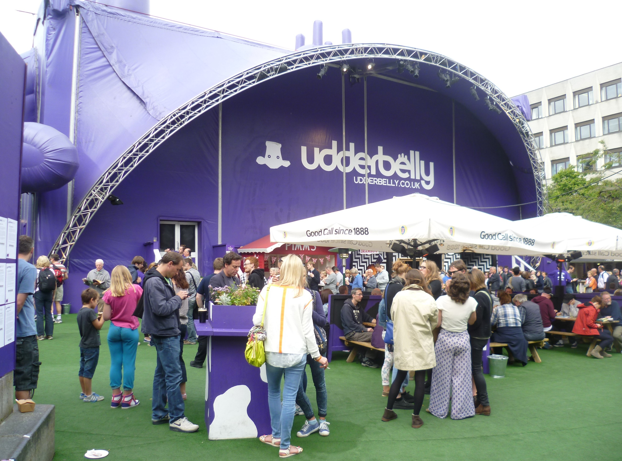 The Udderbelly, Bristo Square 2013